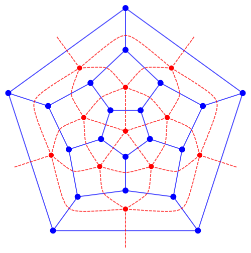 Blue graph is a dodecahedral graph, and red graph is its dual.